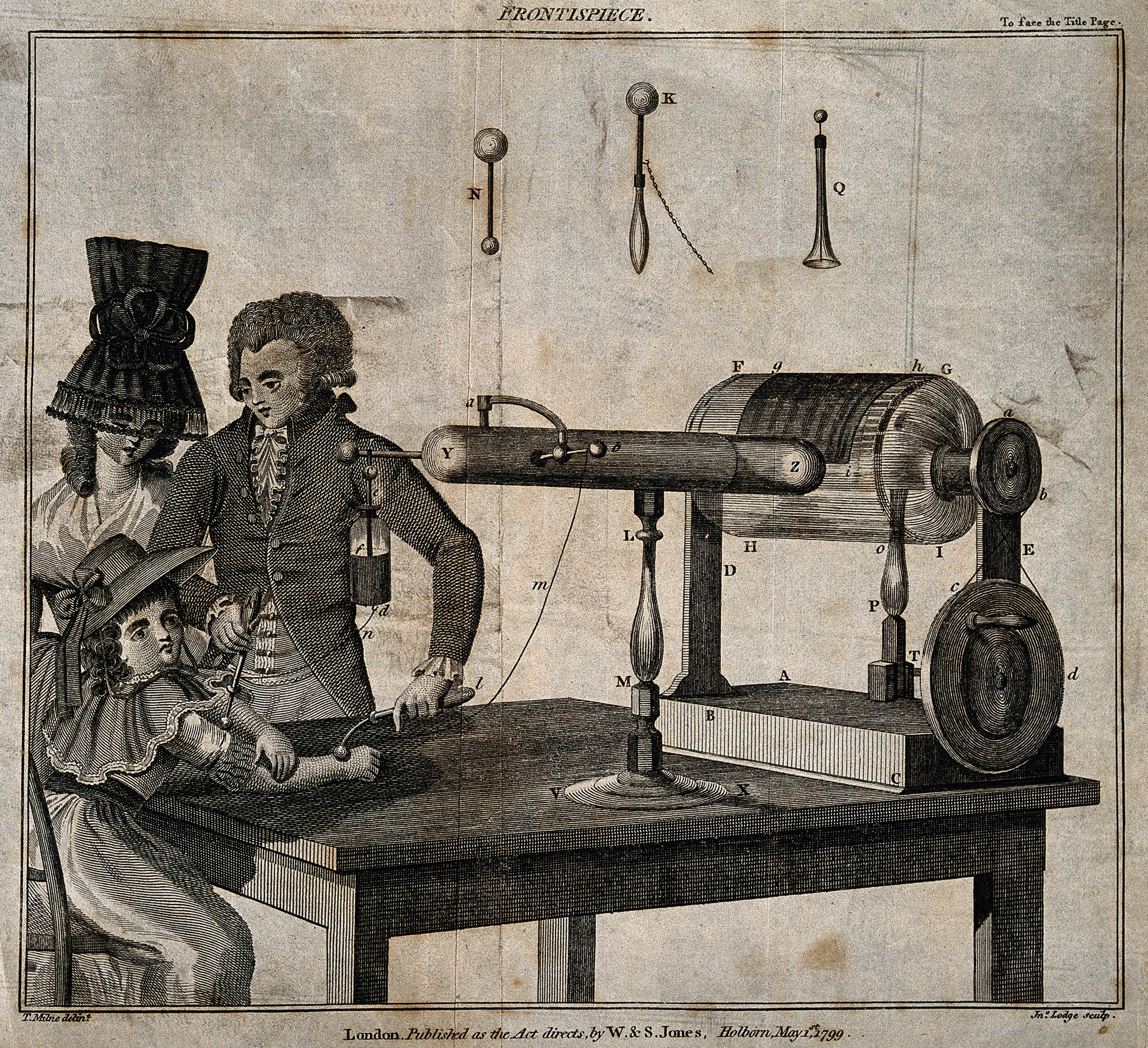 George Adams demonstrates his electrotherapy machine to a woman and her daughter. Line engraving by J. Lodge, 1799, after T. Milne. Iconographic Collections Keywords: John Lodge; ELECTROTHERAPY; T Milne; George Adams; george adams